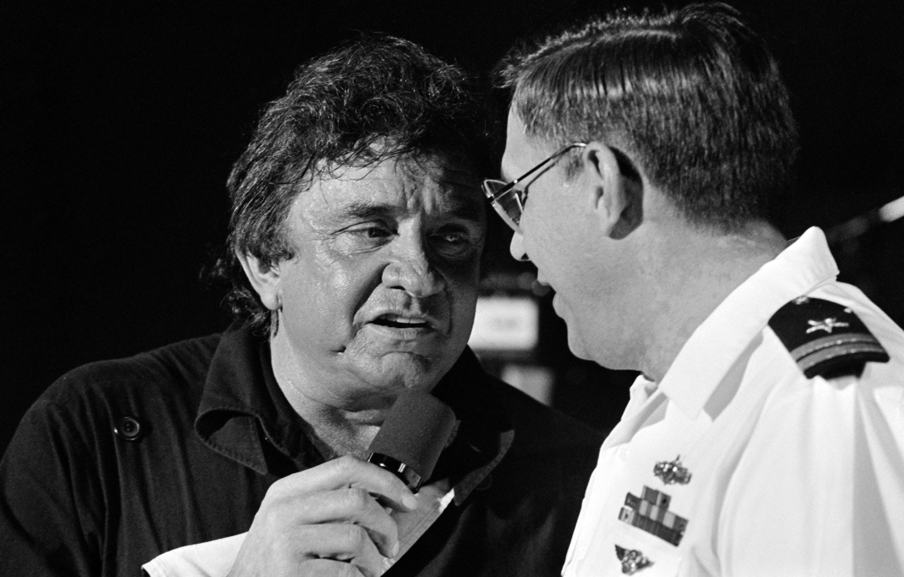 Entertainer Johnny Cash sings a duet with a Navy lieutenant during his performance for military personnel at the naval station.